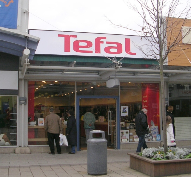 Tefal - Junction 32